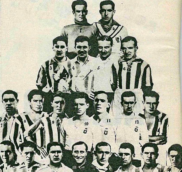 SELECCIÓN DE ESPAÑA - Temporada 1927-28 - Jáuregui, Agustín Eizaguirre; Ciriaco, Quincoces, Vallana, Zaldúa; Artero, Trino, Amadeo, Villaverde, Luis Regueiro, Gamborena y Marculeta; Paco Bienzobas, Mariscal, Errazquin, Yermo, Robus, Sagárzazu, Kiriki y Cholín - Montaje con los seleccionados para laOlimpiada de 1928, en Ámsterdam